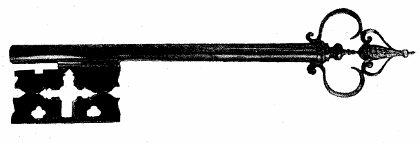 The Royal Key from the Treasury, Stockholm castle.